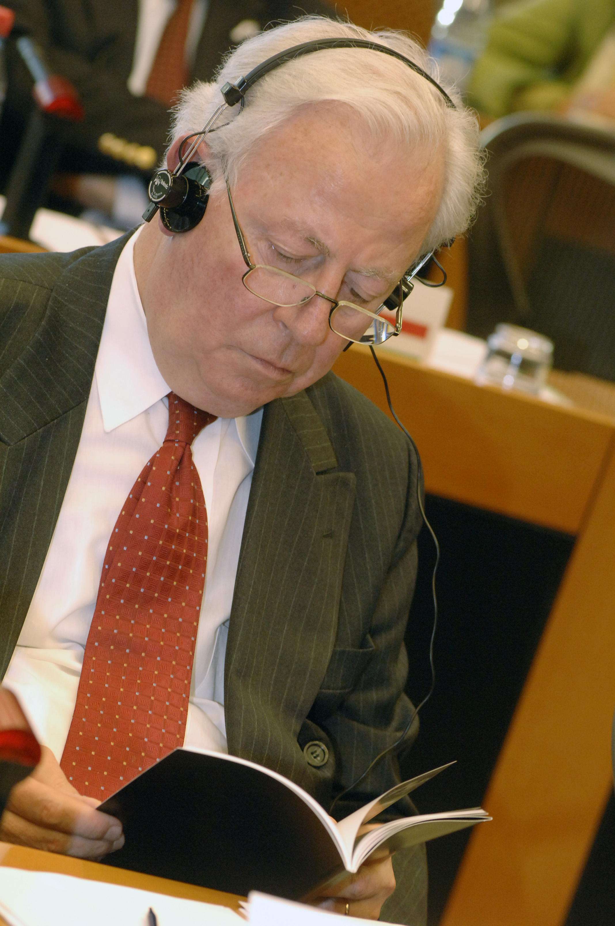 EPP Political Bureau 9 November 2006